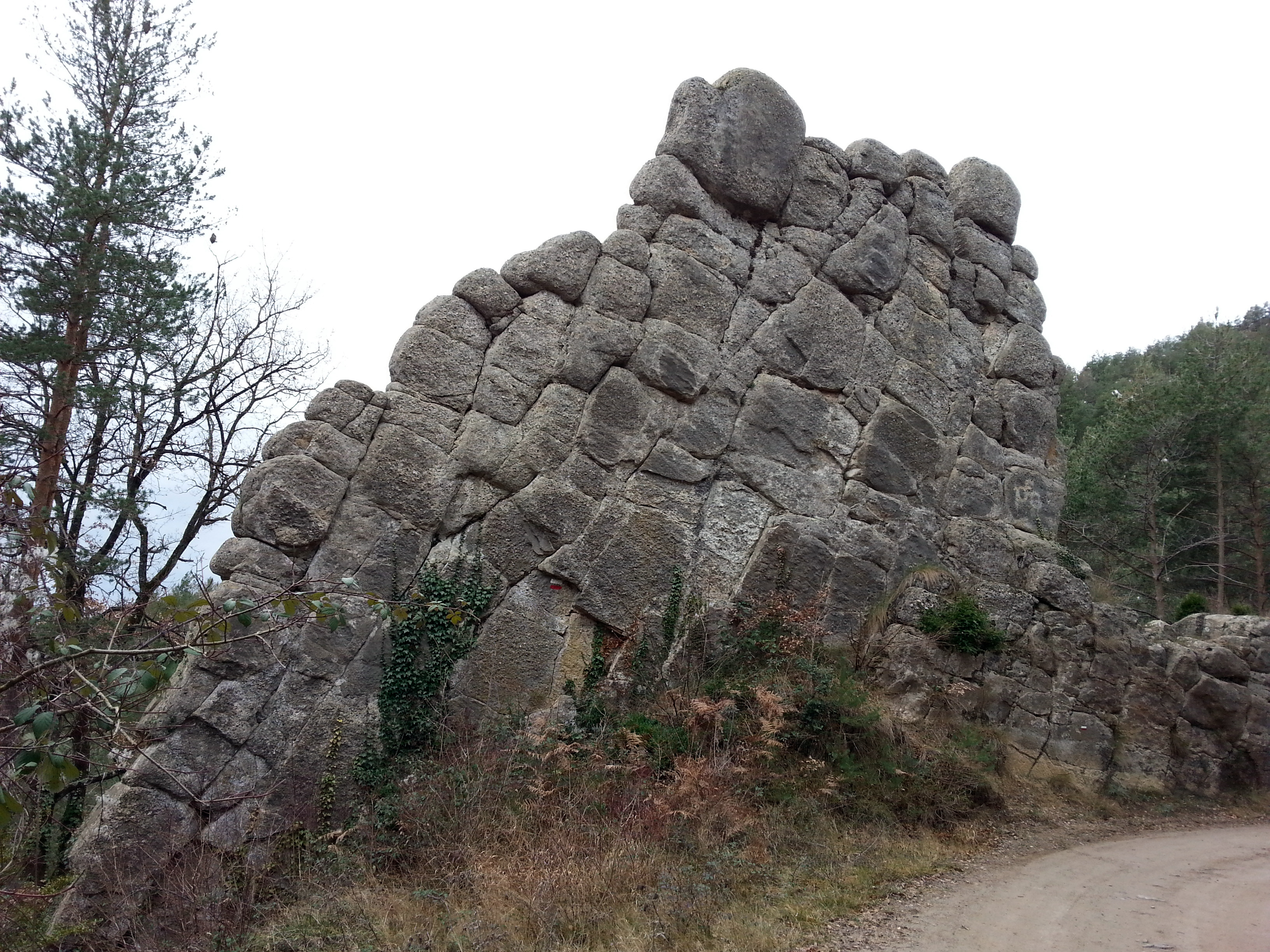 Rocky mountain in Alpens (Osona), Catalonia, Spain.